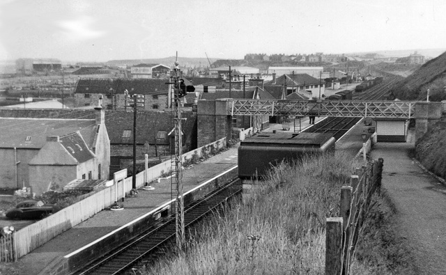 Buckie (GNS) Station. View eastward, towards Portessie, Cullen and eventually round to Cairnie Junction; ex-Great North of Scotland line, Cairnie Junction via coast to Elgin, closed completely on 6/5/68. (Until 9/8/15 there had been another Buckie Station (off to the right) on a Highland Rly branch from Keith to Portessie).